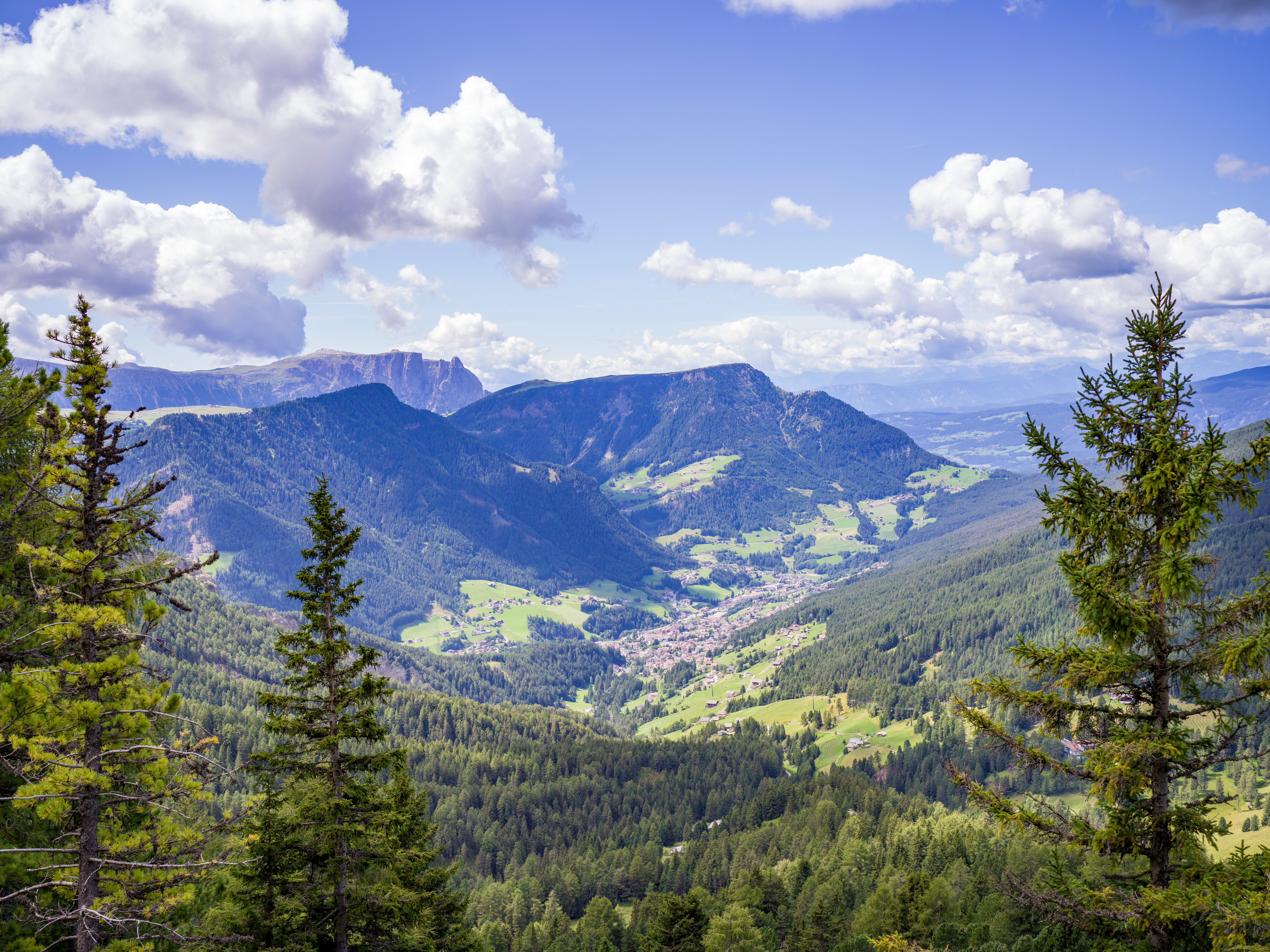 View from Gran Punton of Urtijëi, Gröden.